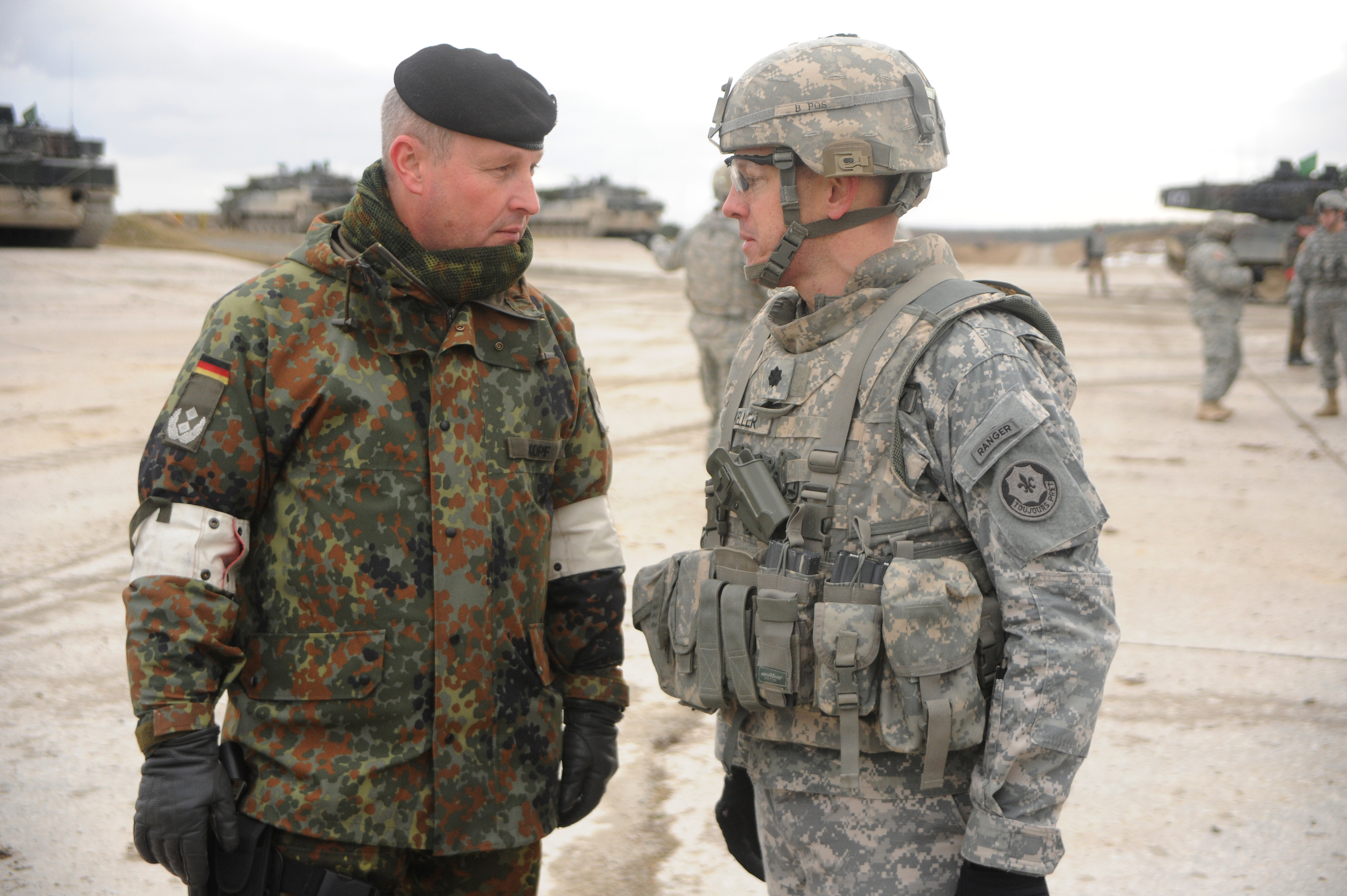 German Army Oberstleutnant (Lt. Col.) Norbert Kopf, commander of 104th Panzer Battalion, talks with Lt. Col. Christopher Keller, commander of 3rd Squadron, 2nd Cavalry Regiment, during Operation Iron Panzer Dec. 8, 2011. Kopf has cited the exceptionally close partnership between the 104th Panzer Battalion and 3rd Squadron, 2nd Cavalry Regiment, as a key factor in the survival of his battalion as the Bundeswehr reorganizes their ground forces. Iron Panzer is a combined live-fire exercise between the U.S. Army’s 3rd Squadron, 2nd Cavalry Regiment, and the German Bundeswehr’s 4th Company, 104th Panzer Battalion. This is the first combined live-fire exercise that will incorporate both the German Leopard 2 tank and the American Stryker Mobile Gun System.